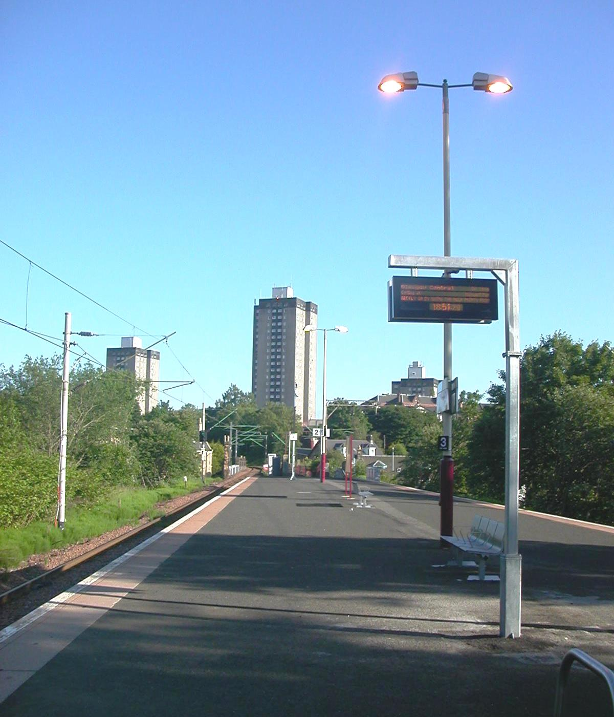 Shawlands railway station, Glasgow, Scotland. Looking south towards Pollokshaws East.